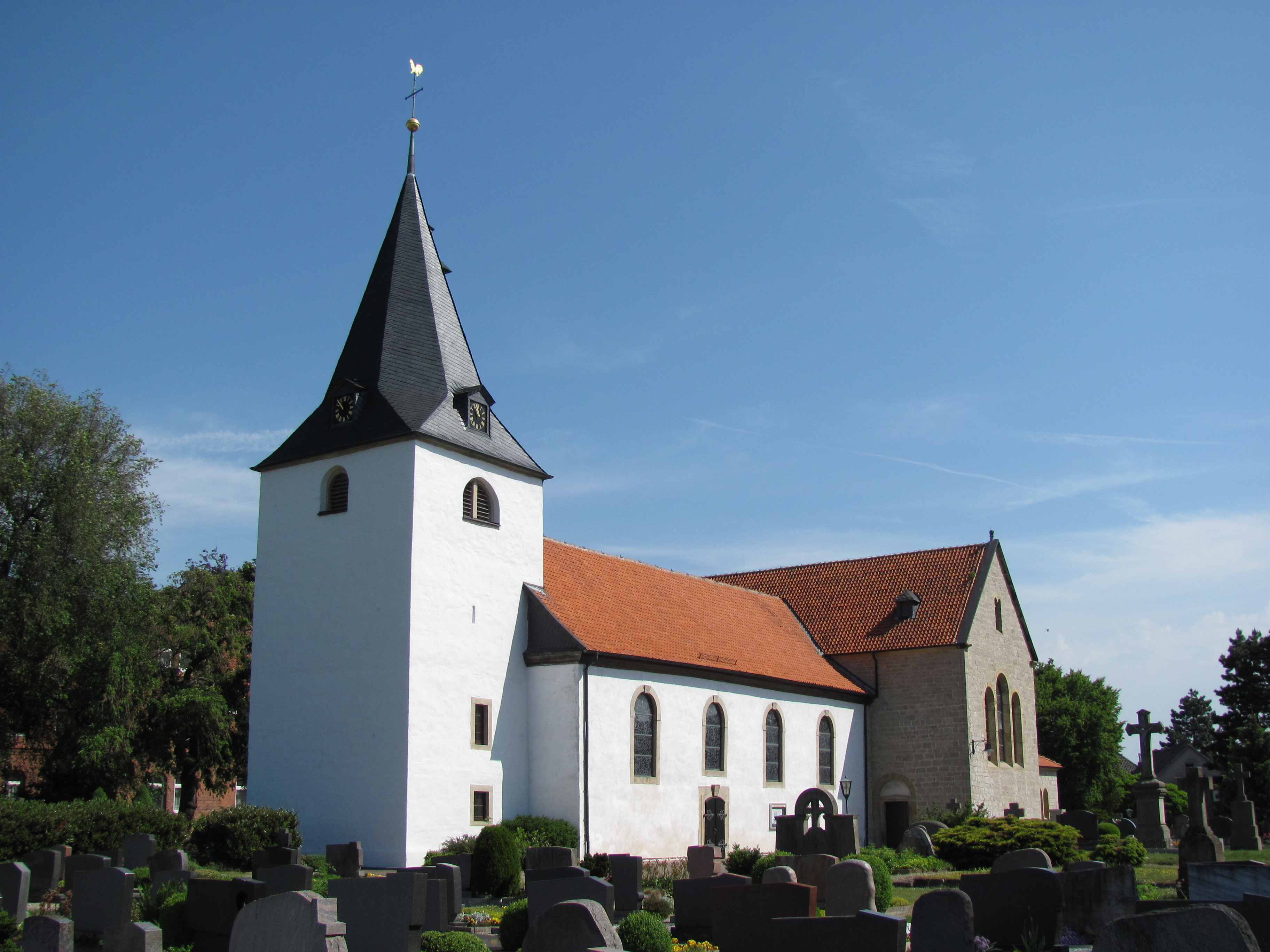 Catholic Church St. Michael, Schellerten-Dingelbe, Lower Saxony, Germany